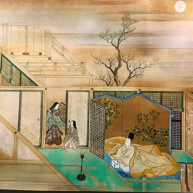 Genji monogatari by Jokei, detail